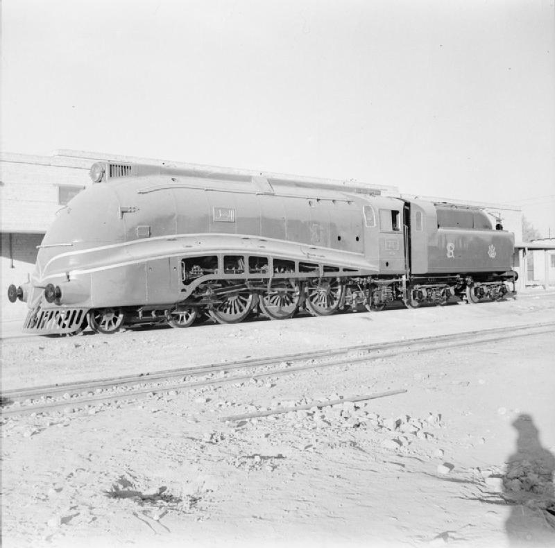 The British Army in the Middle East 1943 The 'Iraqi Steamliner', a locomotive built by Robert Stevenson & Hawthorne of Darlington in 1940, and used on the Baghdad-Mosul line, 28 July 1943.